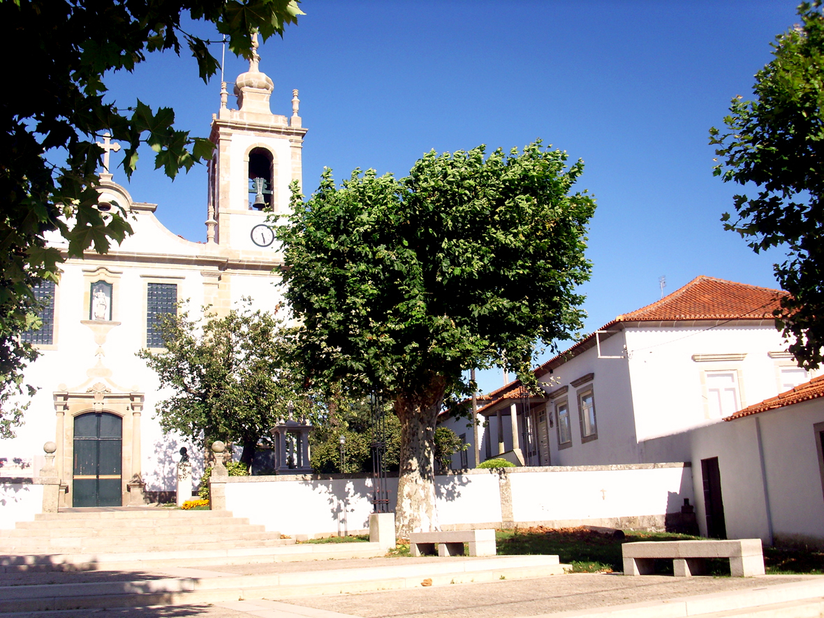 Largo da Igreja Square in Beiriz parish, Póvoa de Varzim